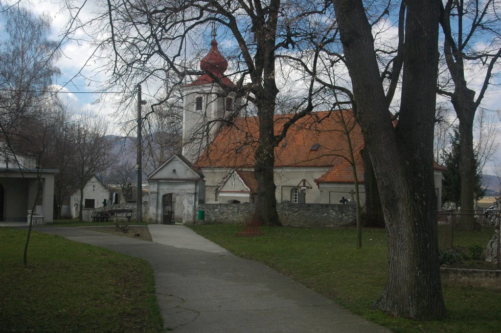 Bíňovce, St. Michael the Archangel Church